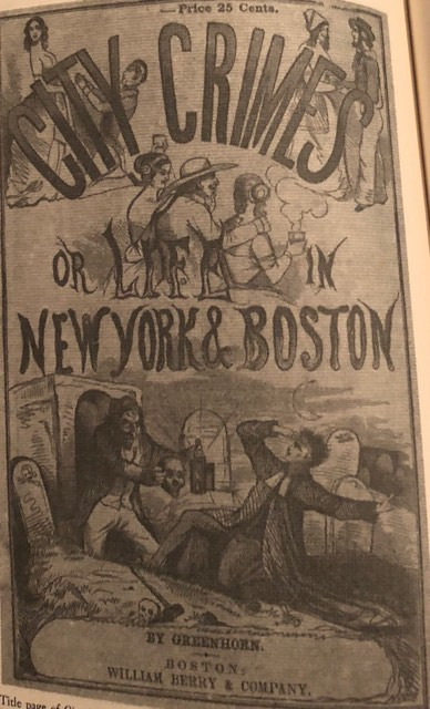 This artwork was the cover of George Thompson's City Crimes in 1849, depicting several scenes in the book. The artist is unknown.